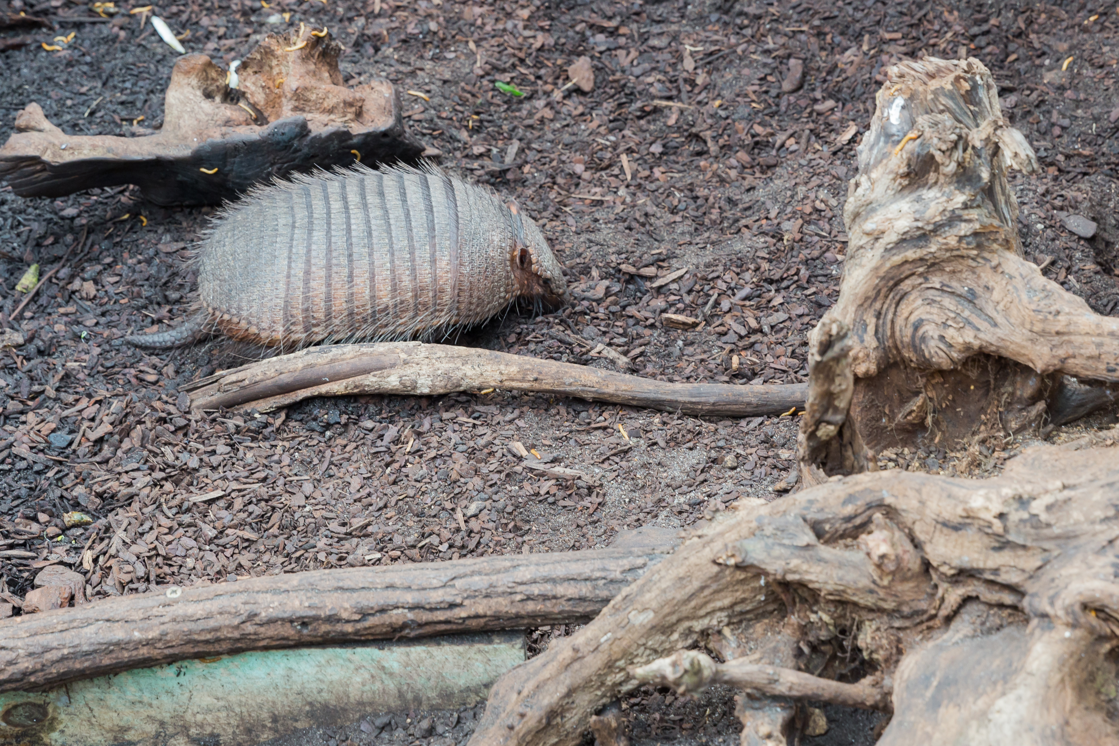 Chaetophractus villosus (Big hairy armadillo) in the ZooParc de Beauval in Saint-Aignan-sur-Cher, France.